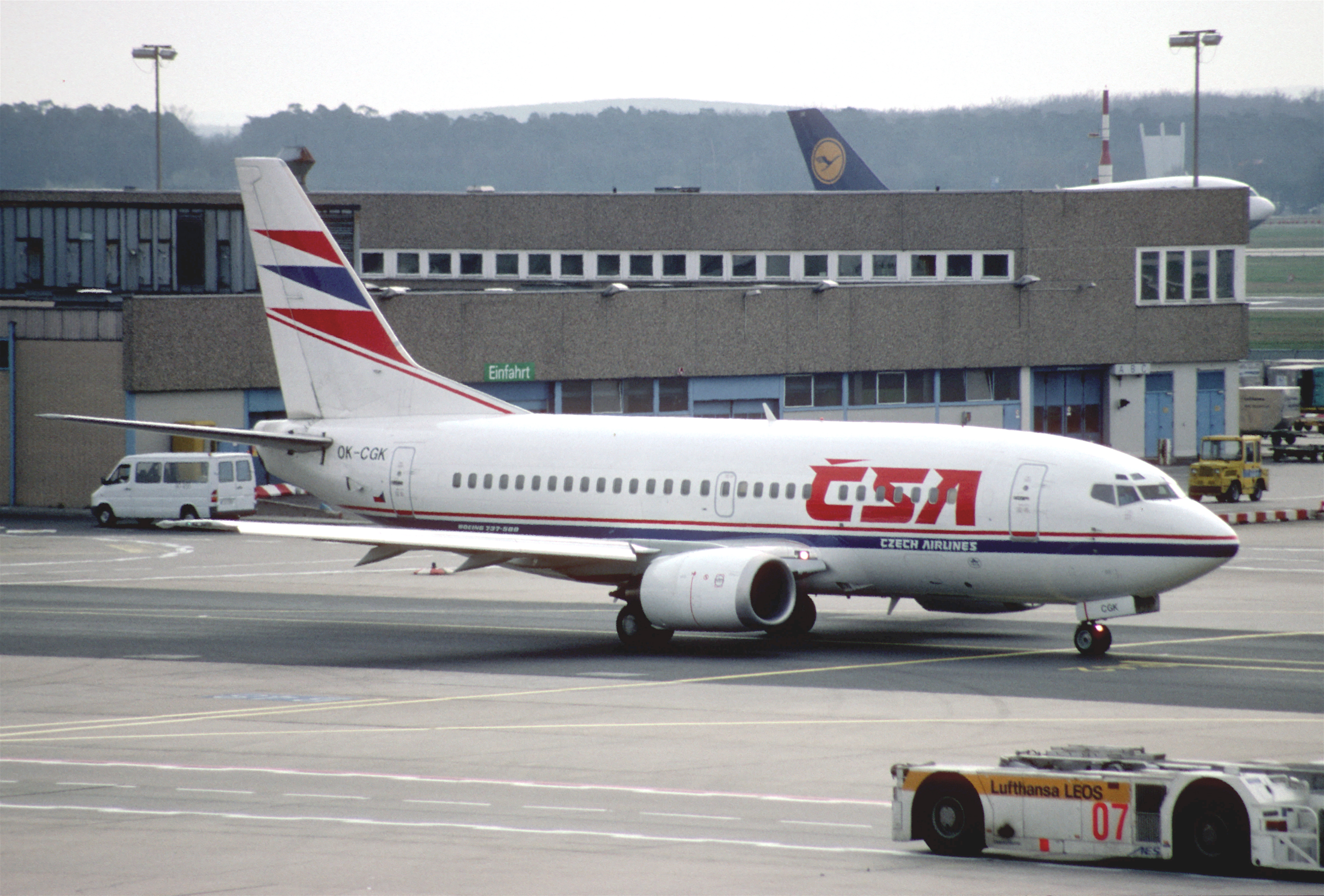 This Boeing 737-55S took its first flight on May 3, 1997...(c/n 28471/ 2885) 23/05/1997 CSA OK-CGK stored 09/2011 02/09/2011 ArmAvia EK-73771 20/09/2011 Slovakian Airlines OM-BTS